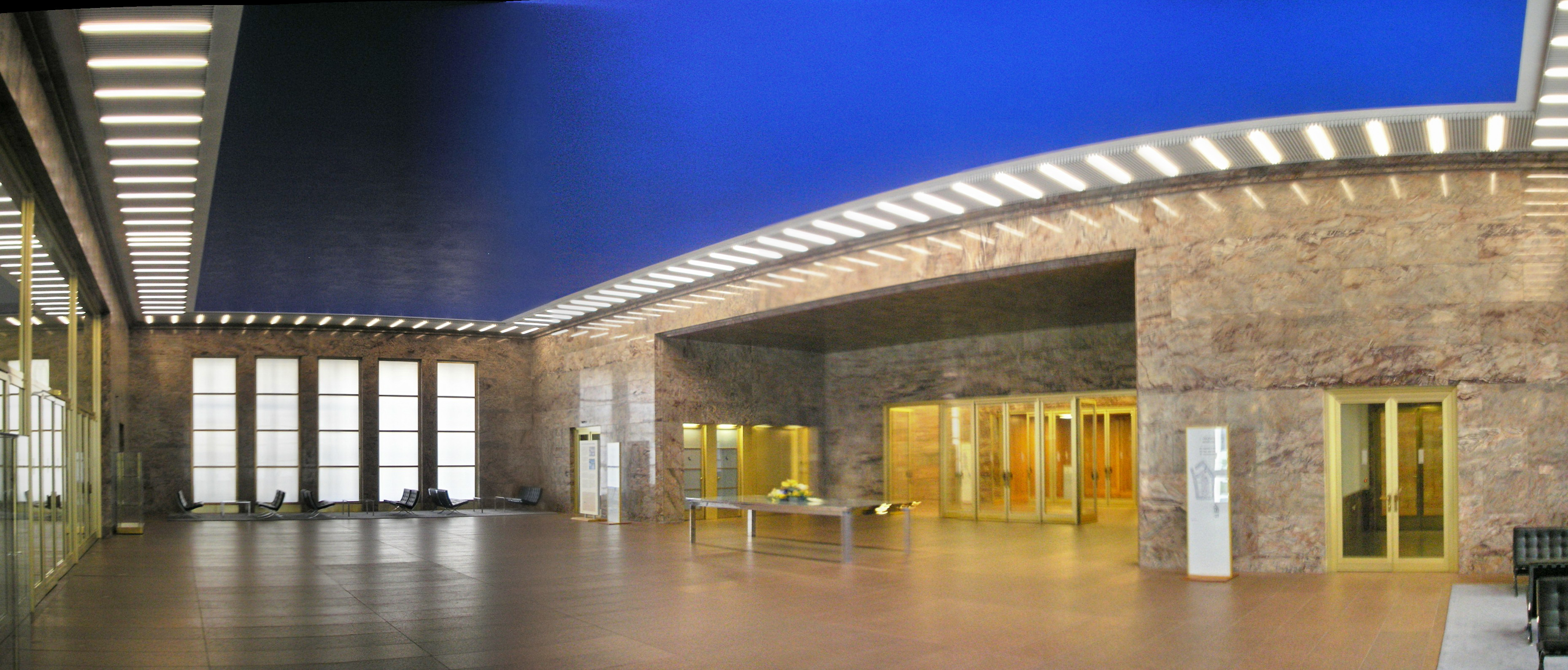 Main hall (so-called Blaue Grotte) of the old Reichsbank building, now part of the Foreign Office in Berlin. Constructed by the Nazis in the 1940's, it was redesigned by Hans Kolhoff in the 1990's.